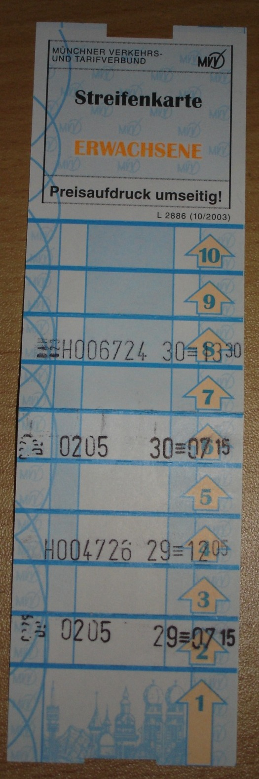 Stripe Ticket of the Munich Transport and Tariff Association, Munich, Bavaria.